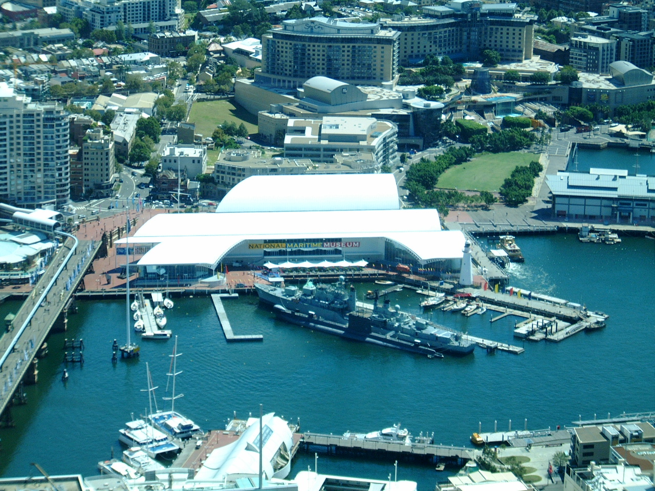 National Maritime Museum, Sydney